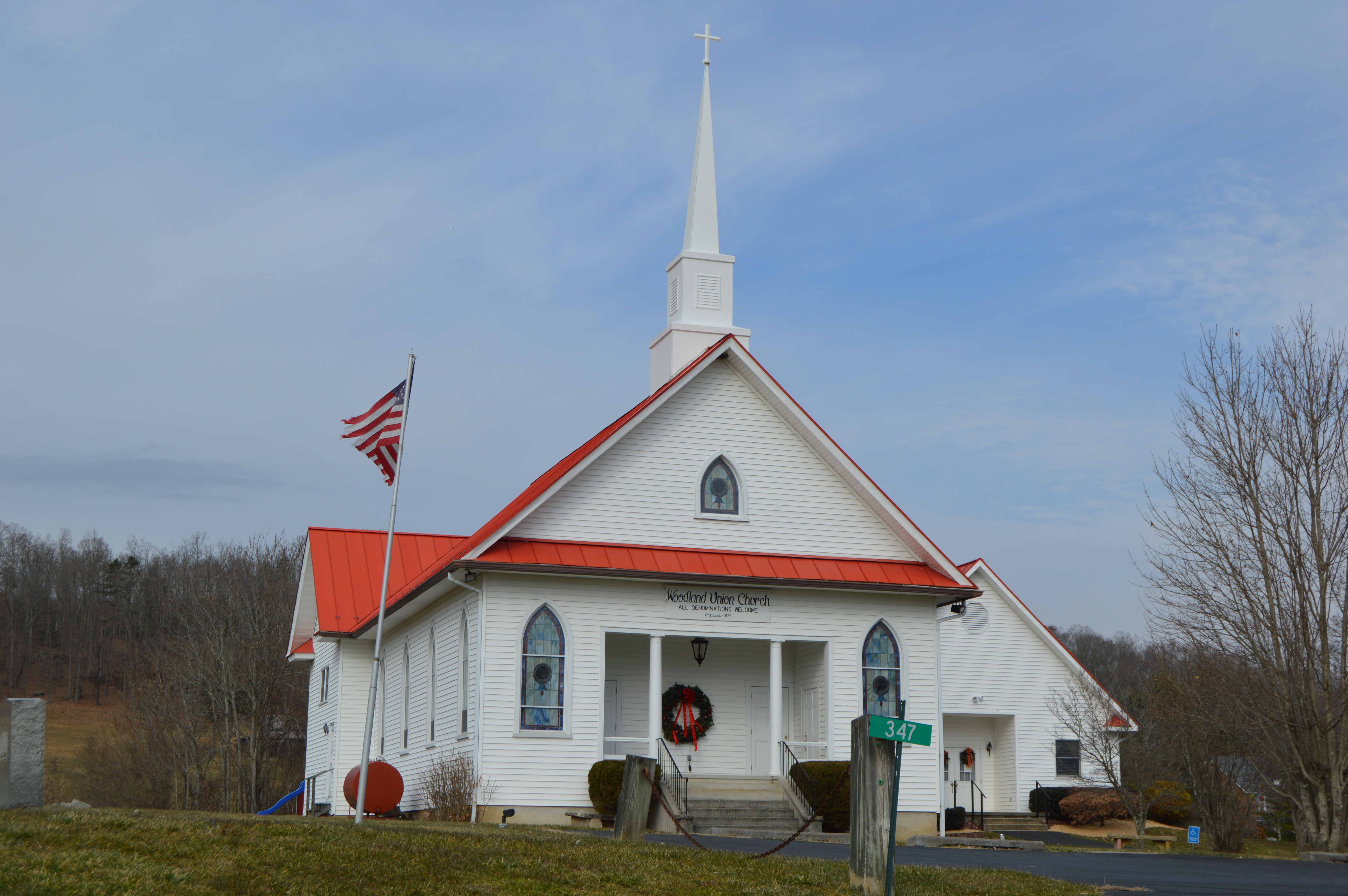 Front and western side of the Woodland Union Church, located on Deerfield Road at McClung in Bath County, Virginia, United States.